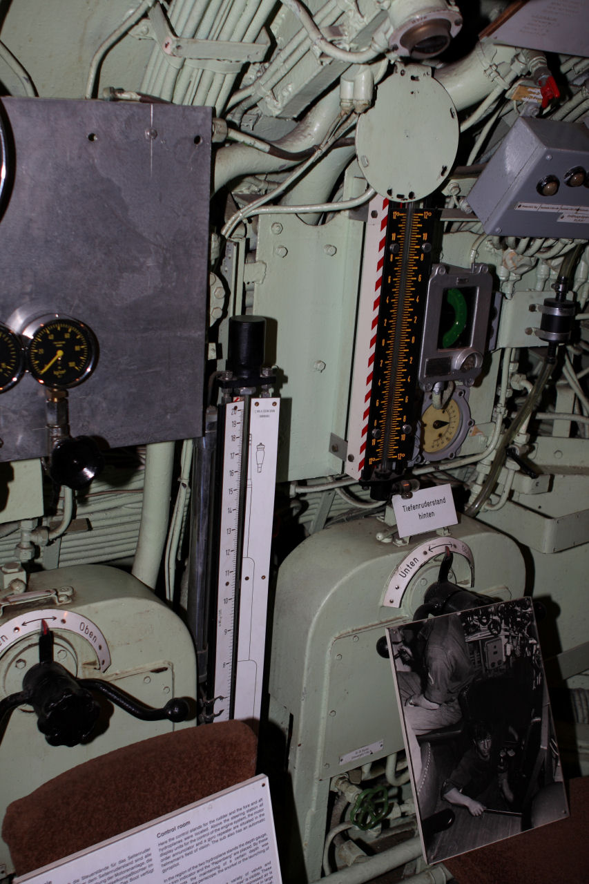 Depth gauges and controls for the hydroplanes of submarine Wilhelm Bauer (ex U 2540).